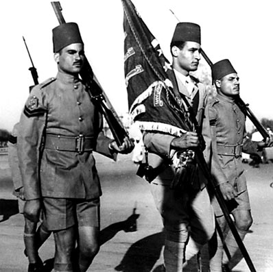 Nasser carrying the battalion flag